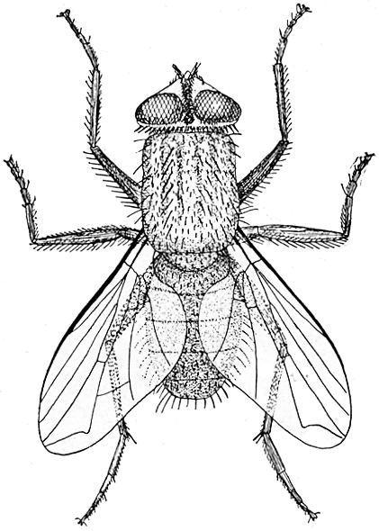 House fly illustration. The original caption read: Fig. 530.--Musca, house fly (orig.).